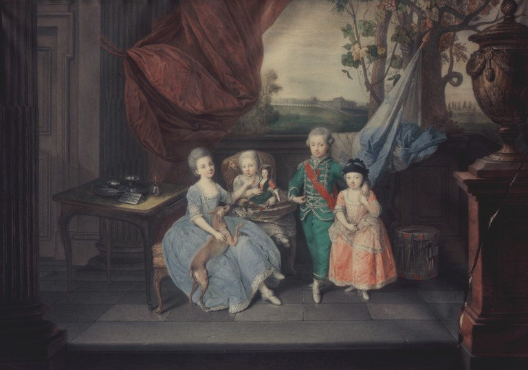 Children of Ferdinand I. of Parma and his wife, Marie Amalia of Austria. Grandchildren of Maria Theresia of Austria and Holy Roman Emperor Francis I. Stephan of Habsburg-Lorraine.